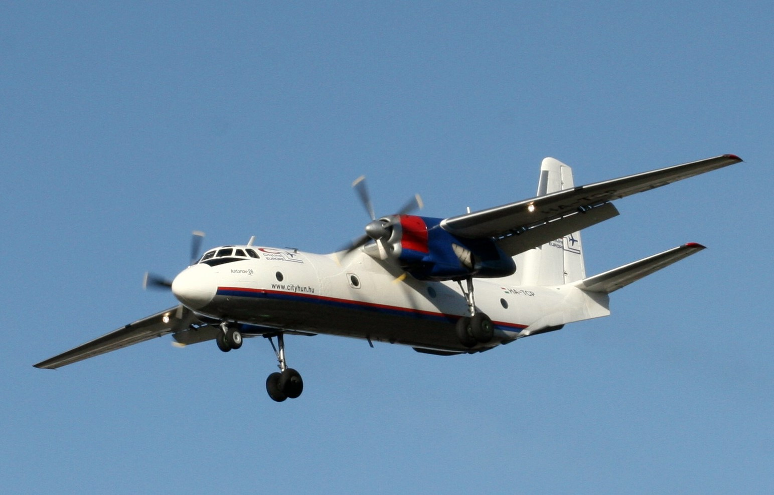 HA-TCP An26B City Line Coventry Airport 11-02-2007